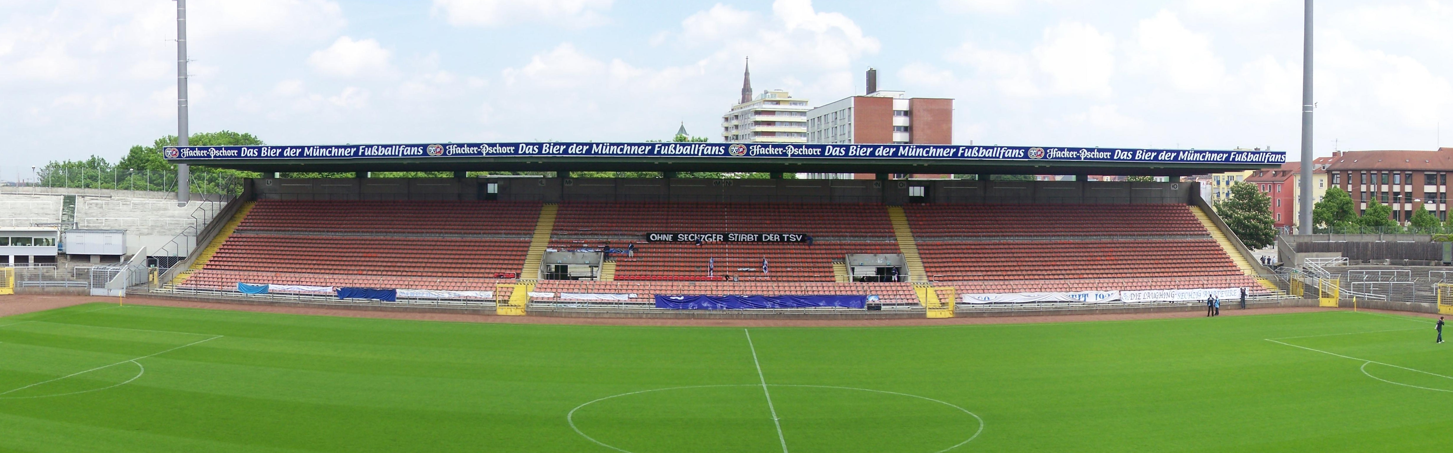 panoramic view of the "Stehhalle" in the "Stadion an der Grünwalder Straße" in Munich